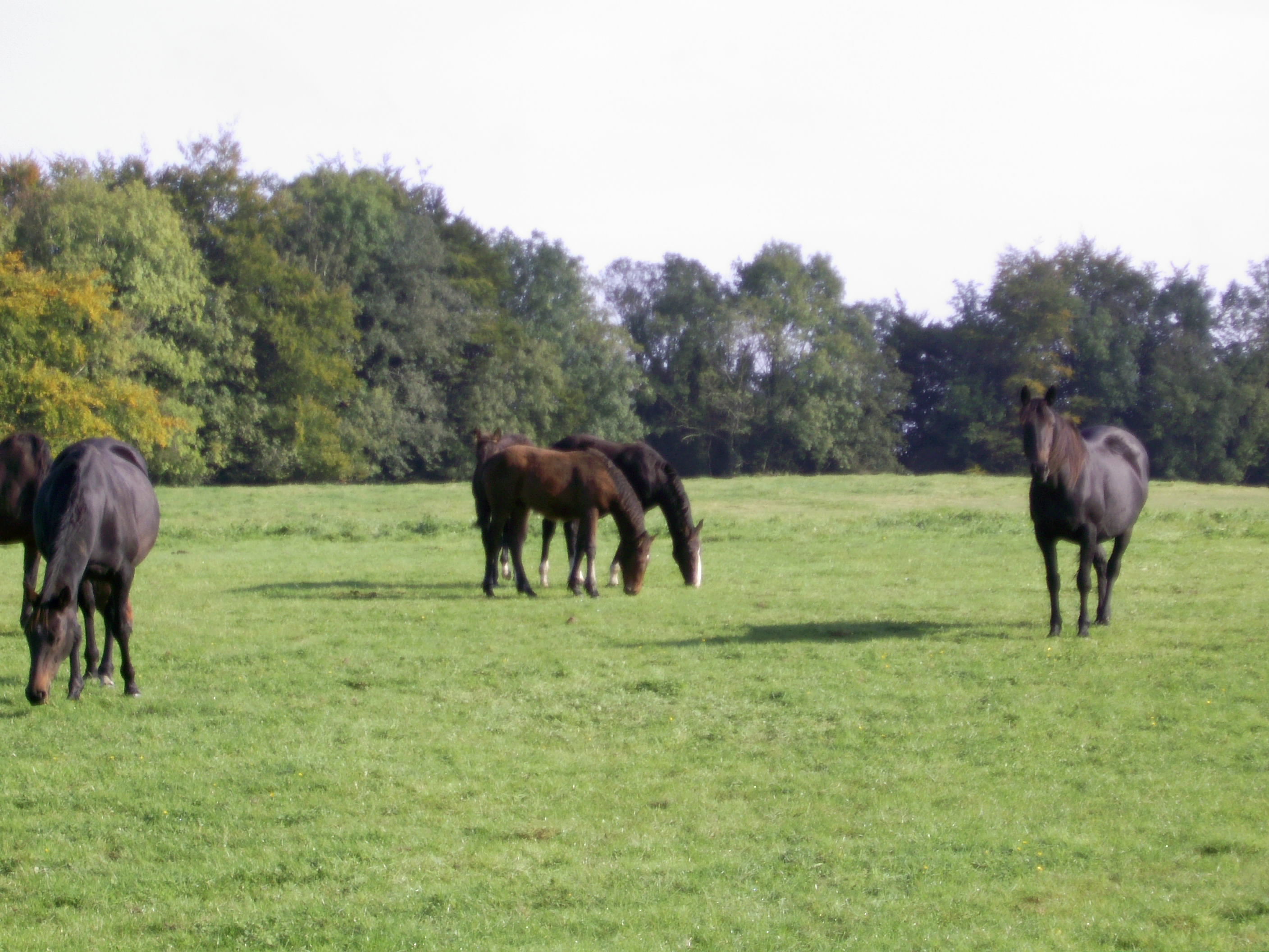 Chevaux_de_Westmeath.JPG